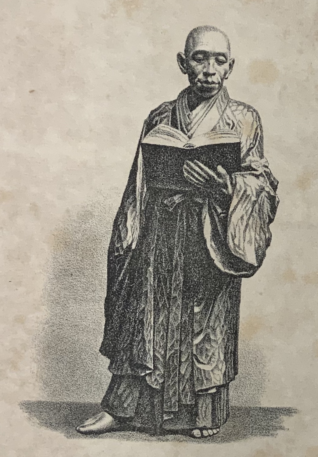 This is a drawing of Japanese physician and scholar Sugita Genpaku (1733-1817)